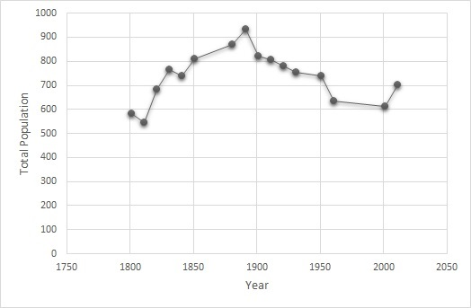 Total Popuation of Hunton Civil Parish, Kent, as reported by the Census of Population from 1801 to 2011